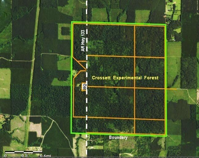 Aerial view of Crossett Experimental Forest located in Ashley County, Arkansas, USA.